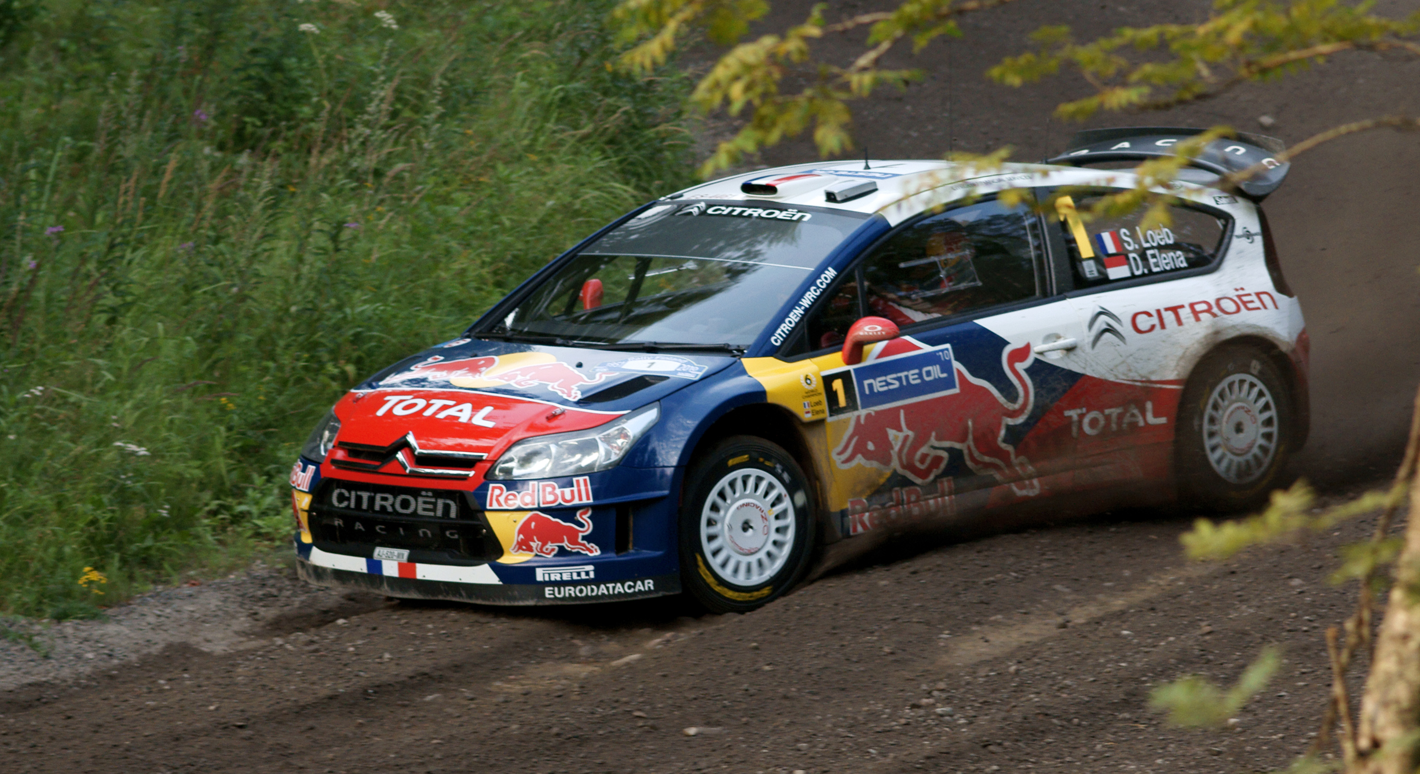 Sebastien Loeb driving at Laajavuori special stage, Rally Finland 2010.